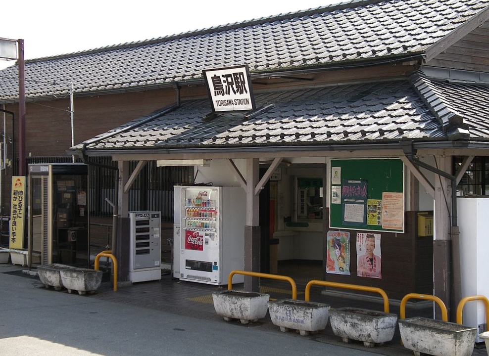 Torisawa Station, Mitch Sako